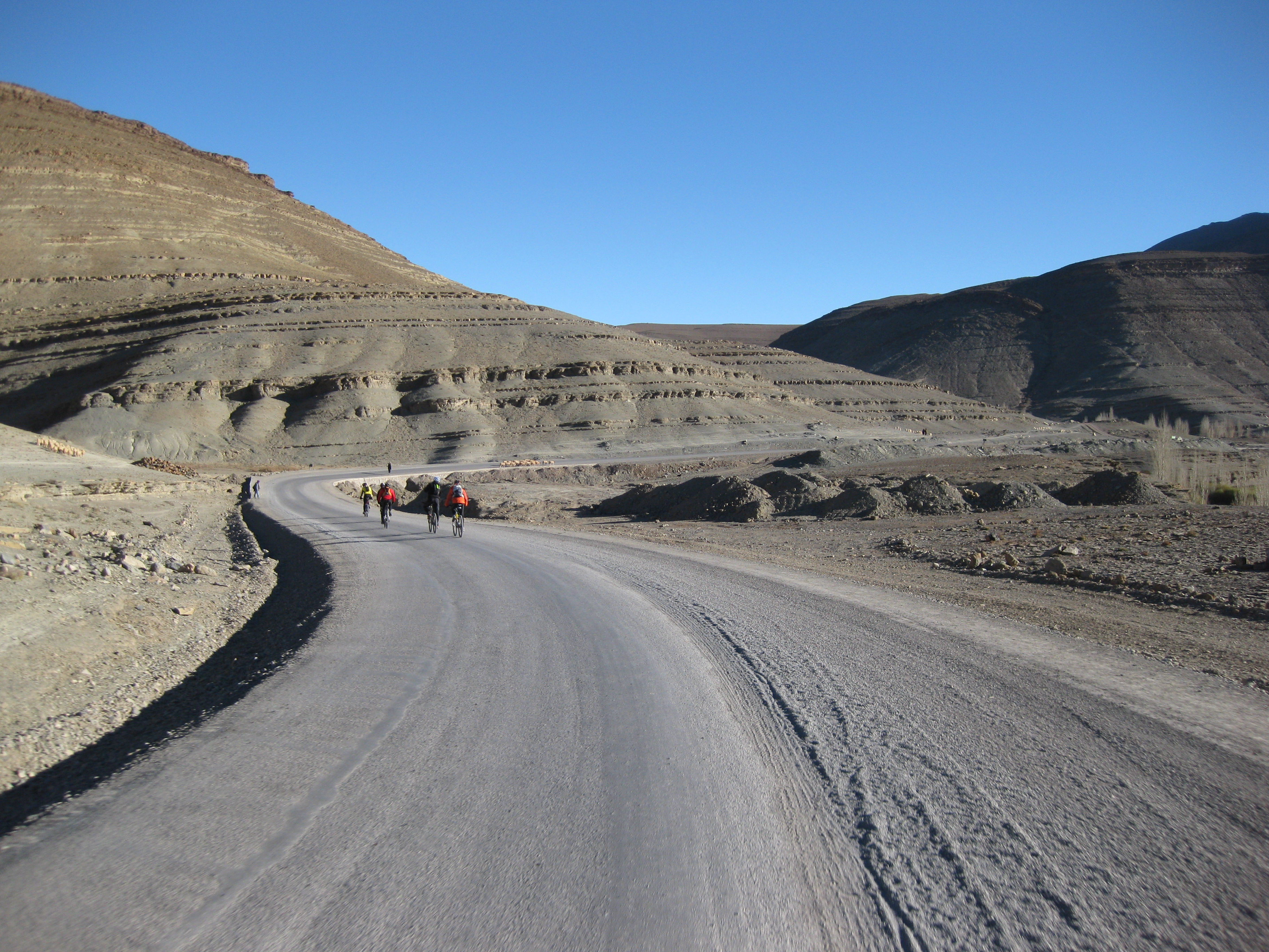 Lunar landscapes on our morning ride from Imilchil to Tamtatouchte, Morocco.